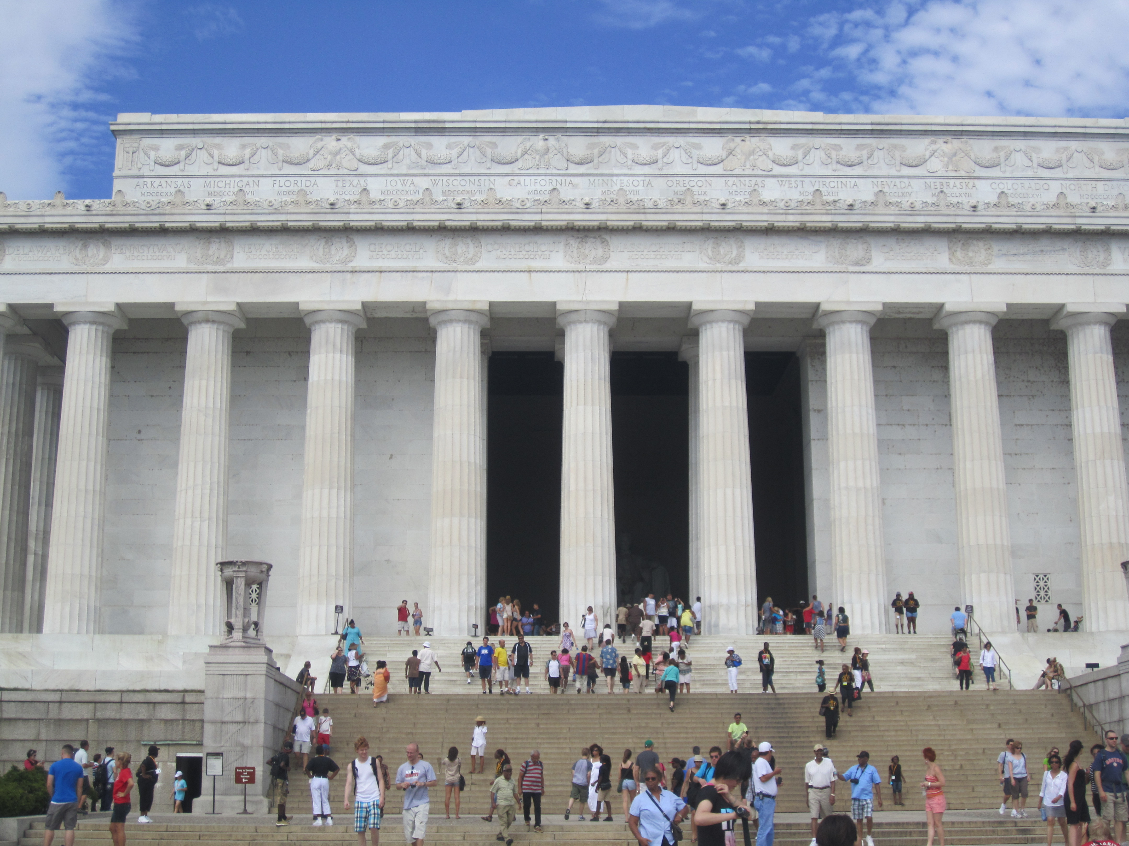 I took photo with Canon camera at Lincoln Memorial in Washington, D.C.